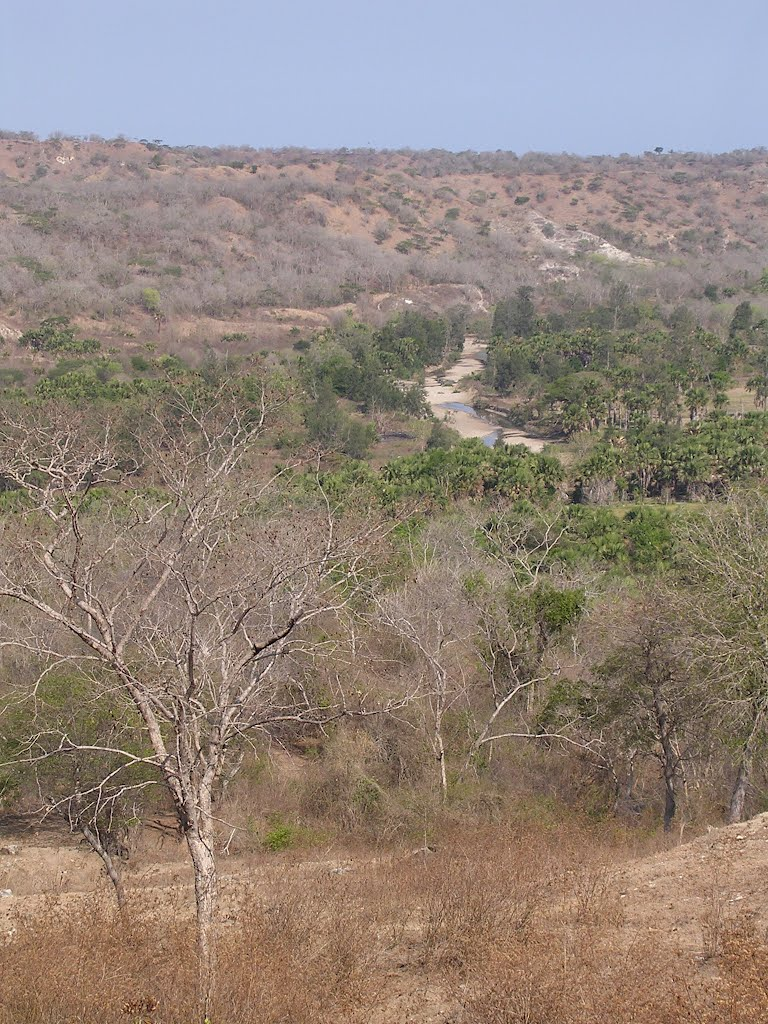 Lontar palm dominated Raumoko River valley contrasts with dry season savanna on hills, Daudere, Lautem, Timor-Leste